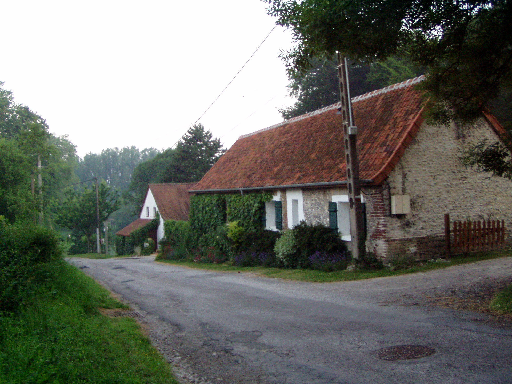 street of Mont Blanc at Beaurainville (France)